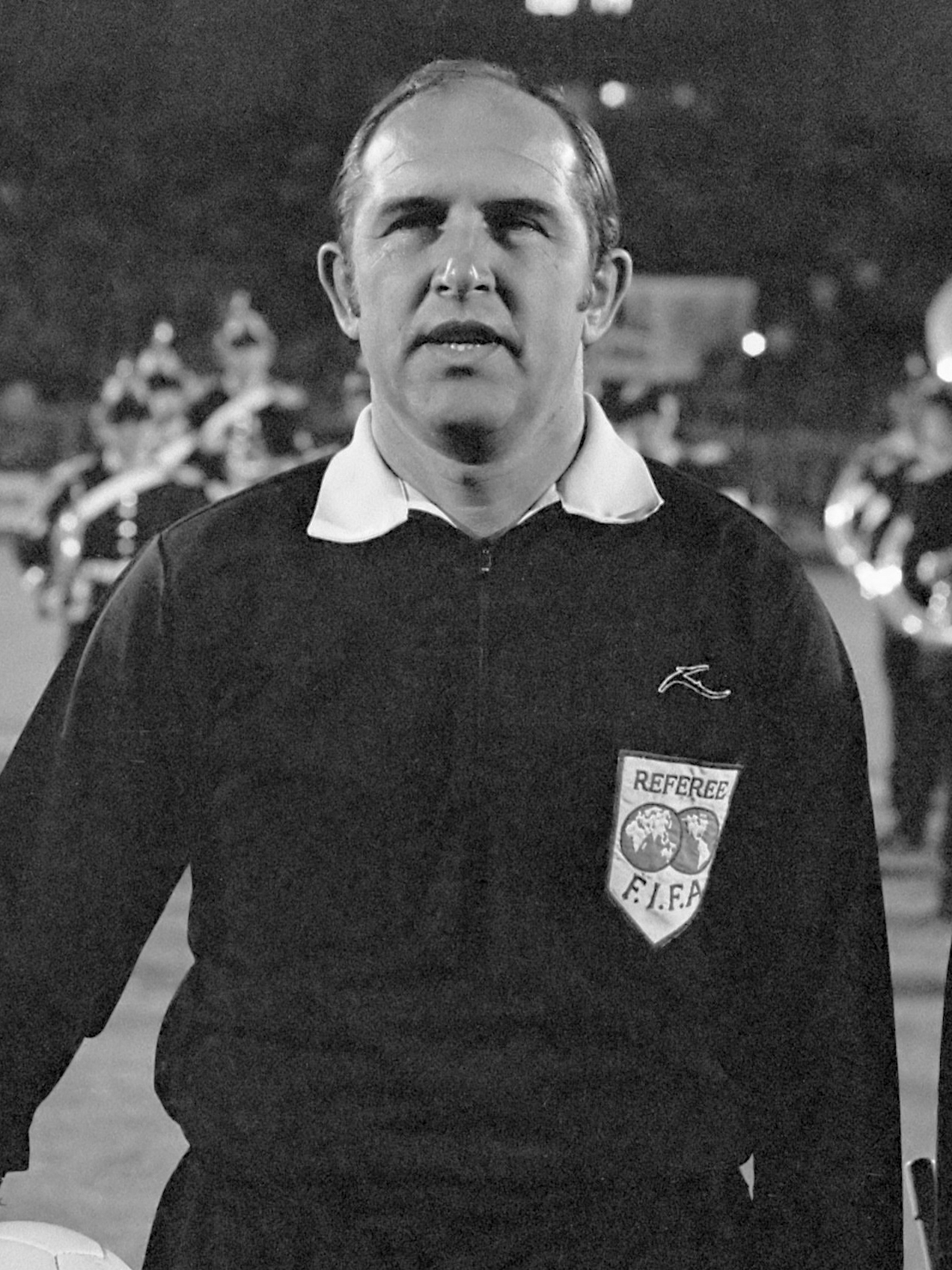 Nederland tegen Polen 3-0; 29: scheidsrechter en grensrechters, 31: Thijssen in Nederlands elftal 15 oktober 1975